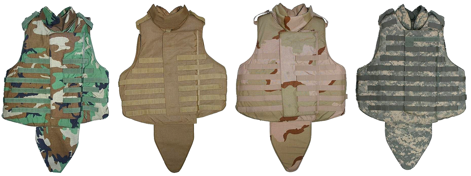 The various existing camouflage of the Interceptor Body Armor (IBA) used by the US Military Forces. Private collection of P-E / Militariabelgium